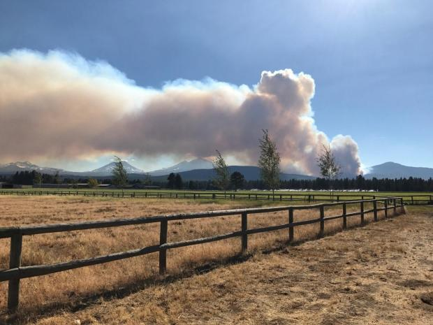 Smoke column from Milli Fire near Sisters, Oregon; August 2017